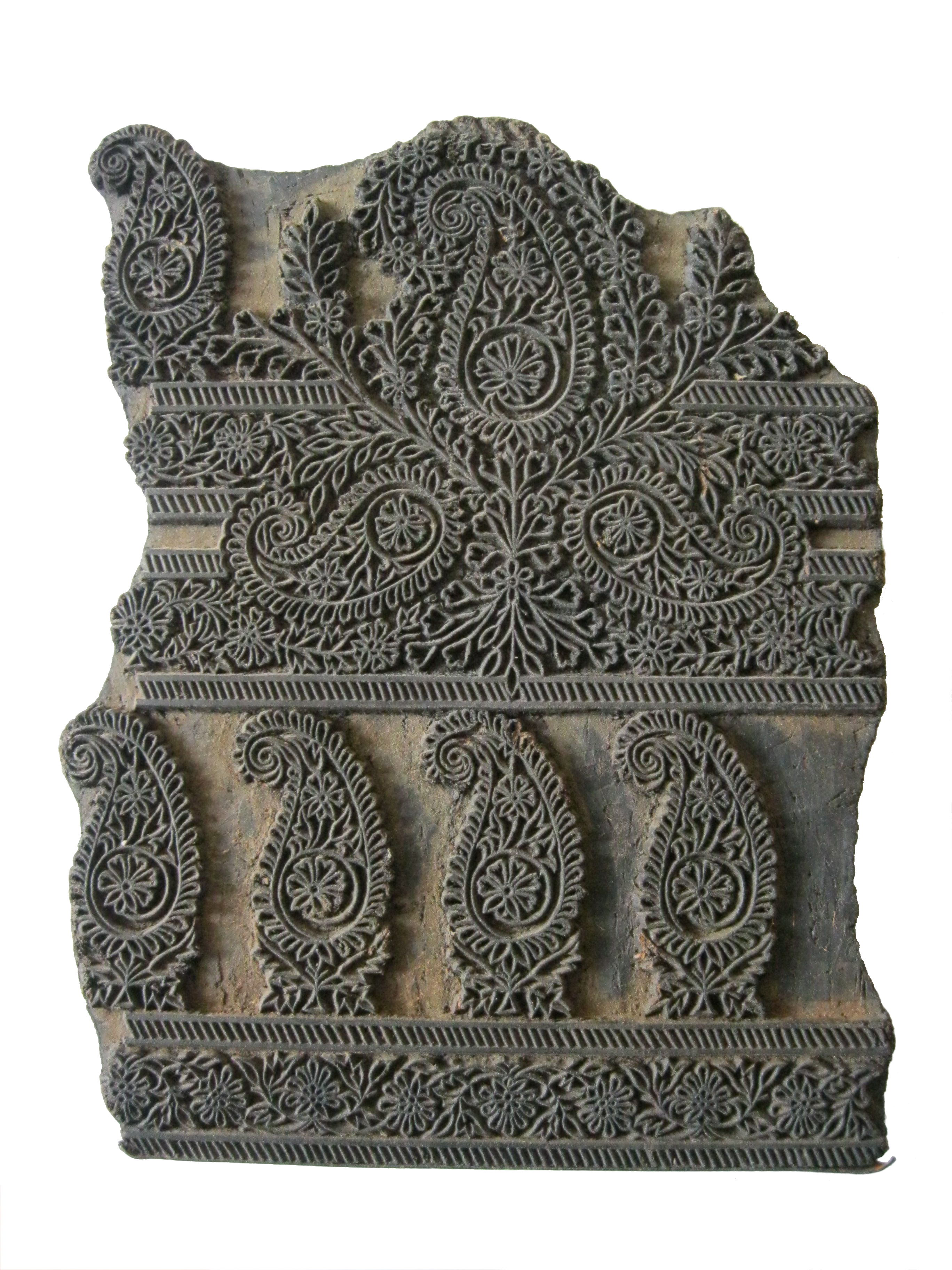 Woodblock for textile printing, India, about 1900, 22 x 17 x 8 cm